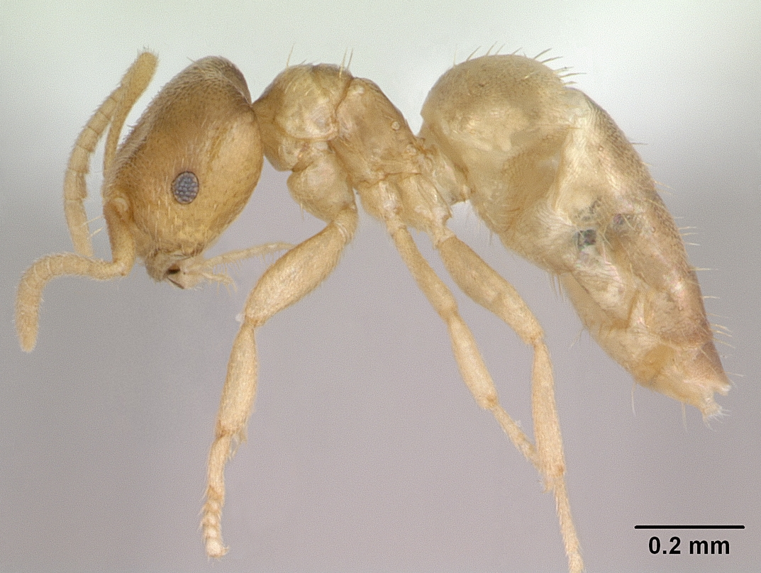 Profile view of ant Brachymyrmex fiebrigi specimen casent0173476.